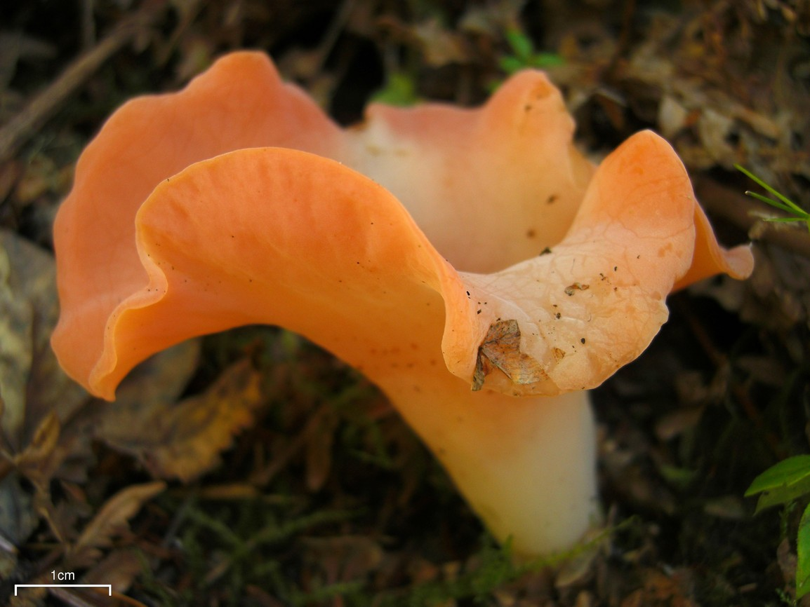 Phlogiotis helvelloides 20090927.152 Canada, BC, Incomappleux Inland Rainforest